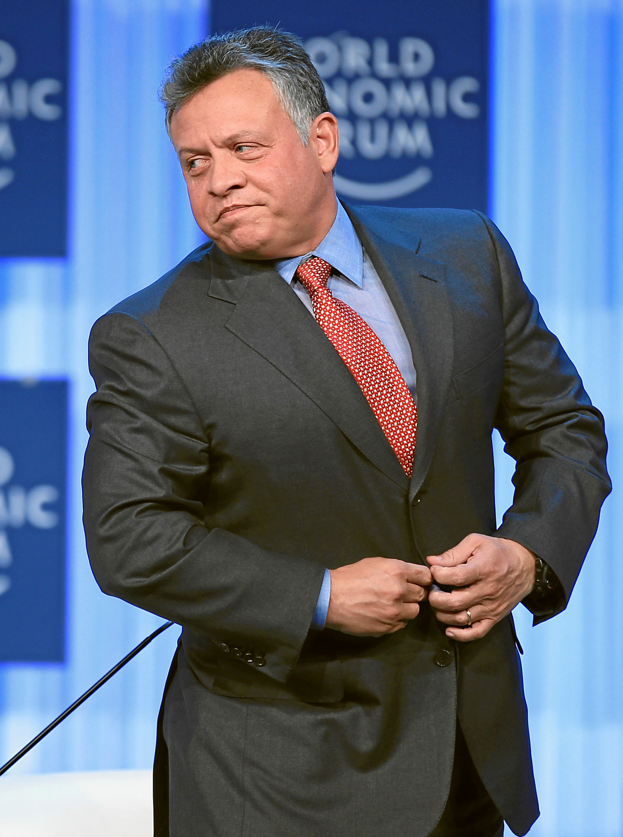 The King of Jordan at 2013 WEF.